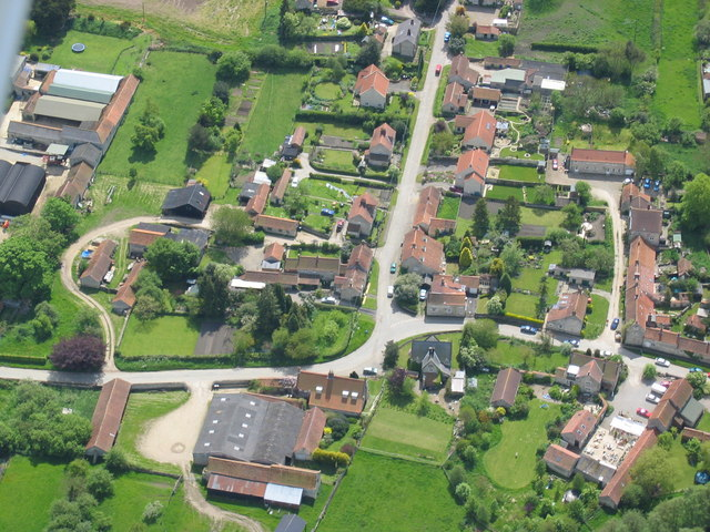 Aerial Photo of Nunnington, North Yorkshire